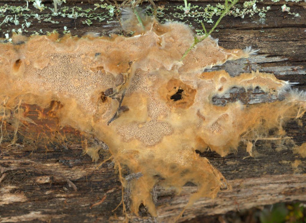 fruiting body in fresh state